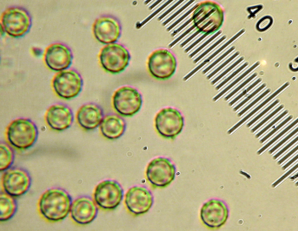 Microscopy of basidiospores from the common puffball mushroom Lycoperdon perlatum Pers. Levels photoshop-adjusted by uploader.